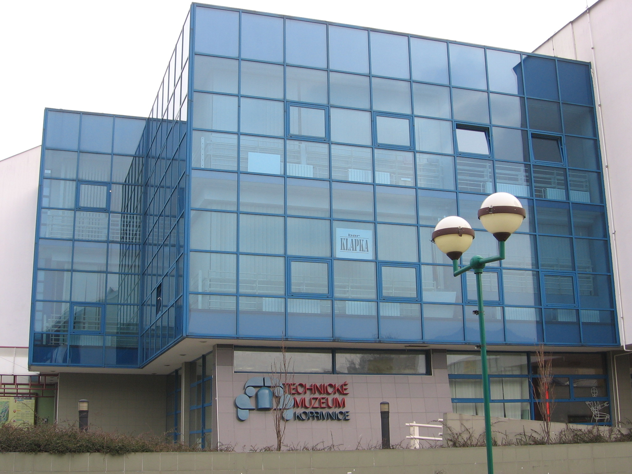 Technical Museum Tatra — the Tatra factory transport Museum, in Kopřivnice, in the far eastern Czech Republic.